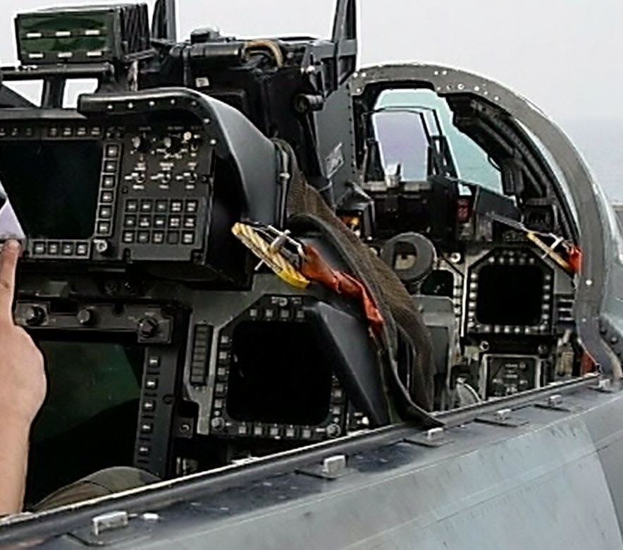 A view of the cockpit of an F-14D from Fighter Squadron Two (VF-2).